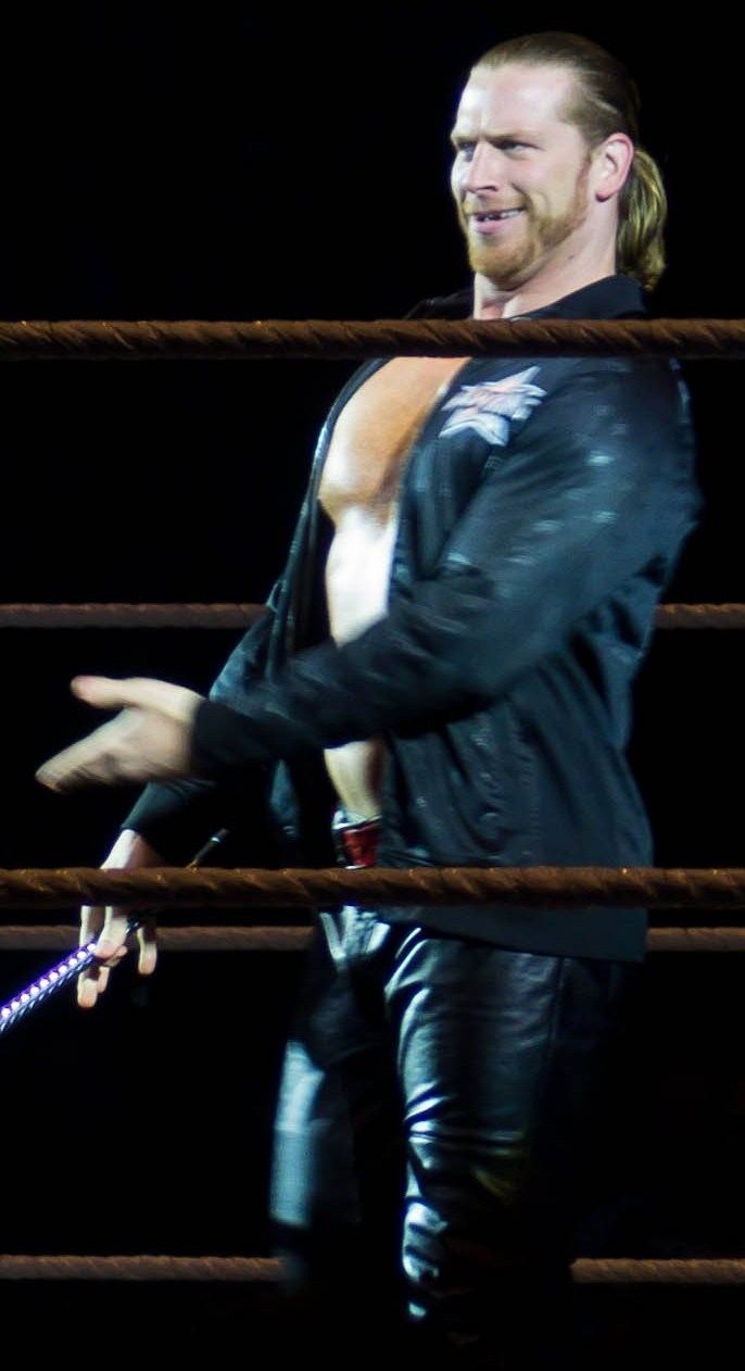 Curt Hawkins at a WWE Raw house show in London on November 11, 2011